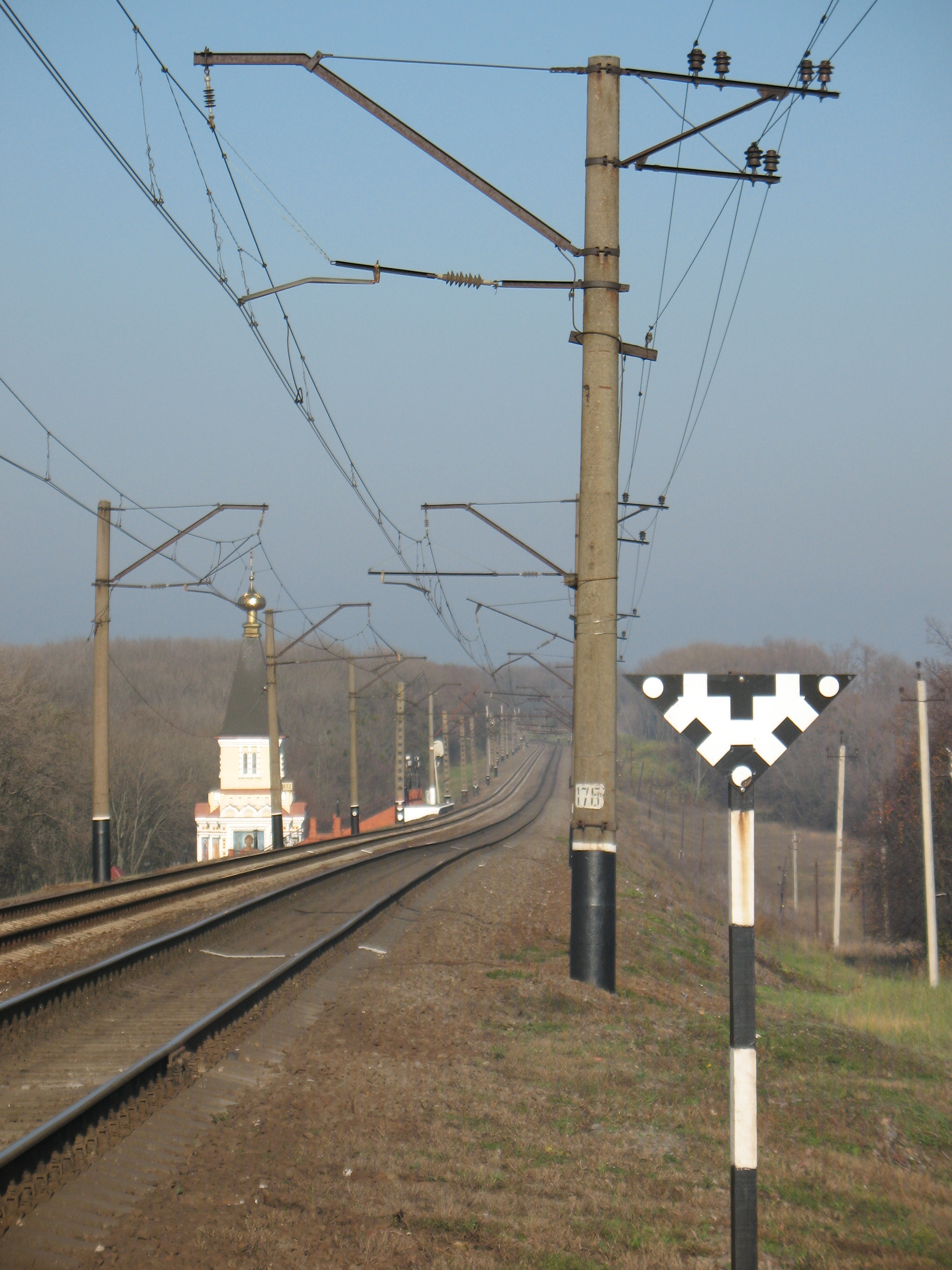 Spasov Skit - Borki railway.